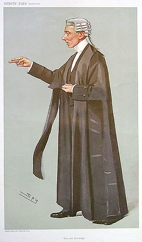 Caricature of John Frederick Peel Rawlinson KC LLM MP. Caption read "Eton and Cambridge".